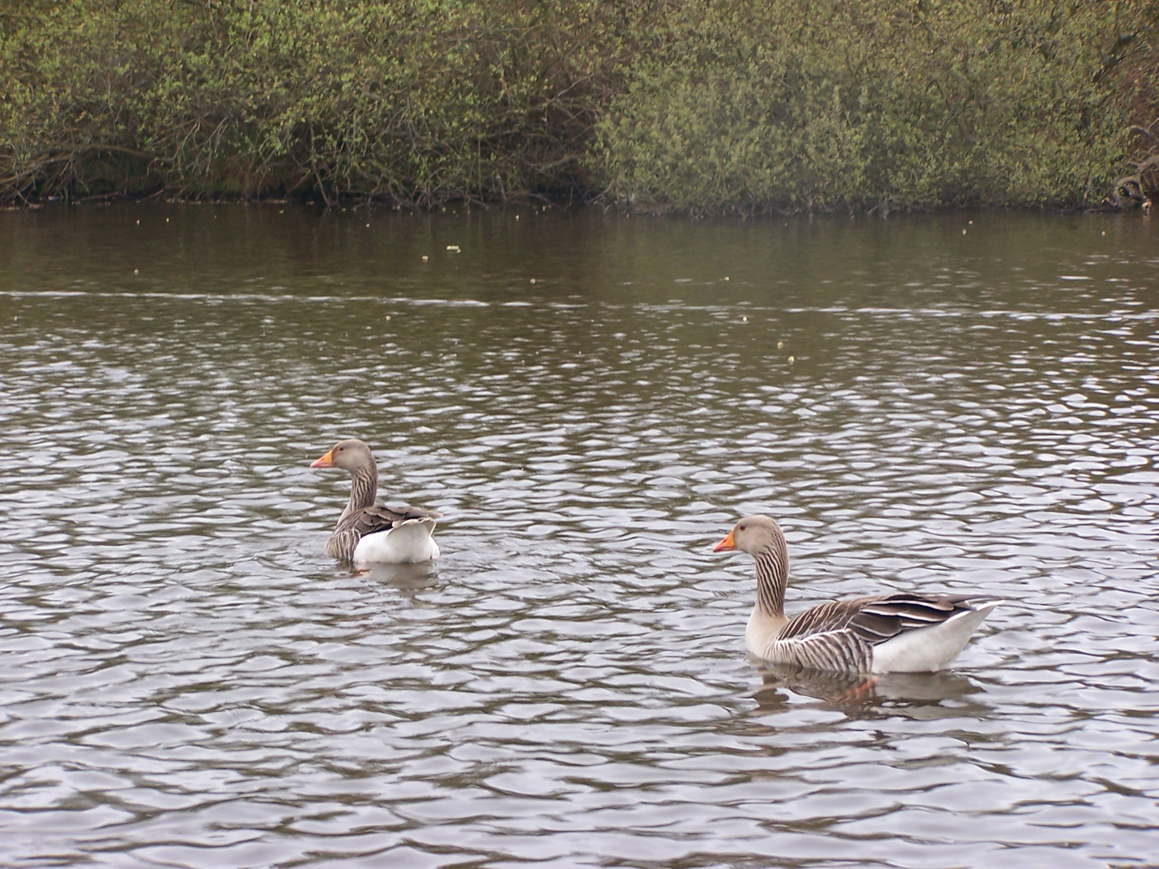 Greylag geese on Kincraig Lake, Kincraig Ecological Reserve. Photo taken by ♦Tangerines♦·Talk on 10 April 2007.